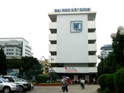 National University of Civil Engineering